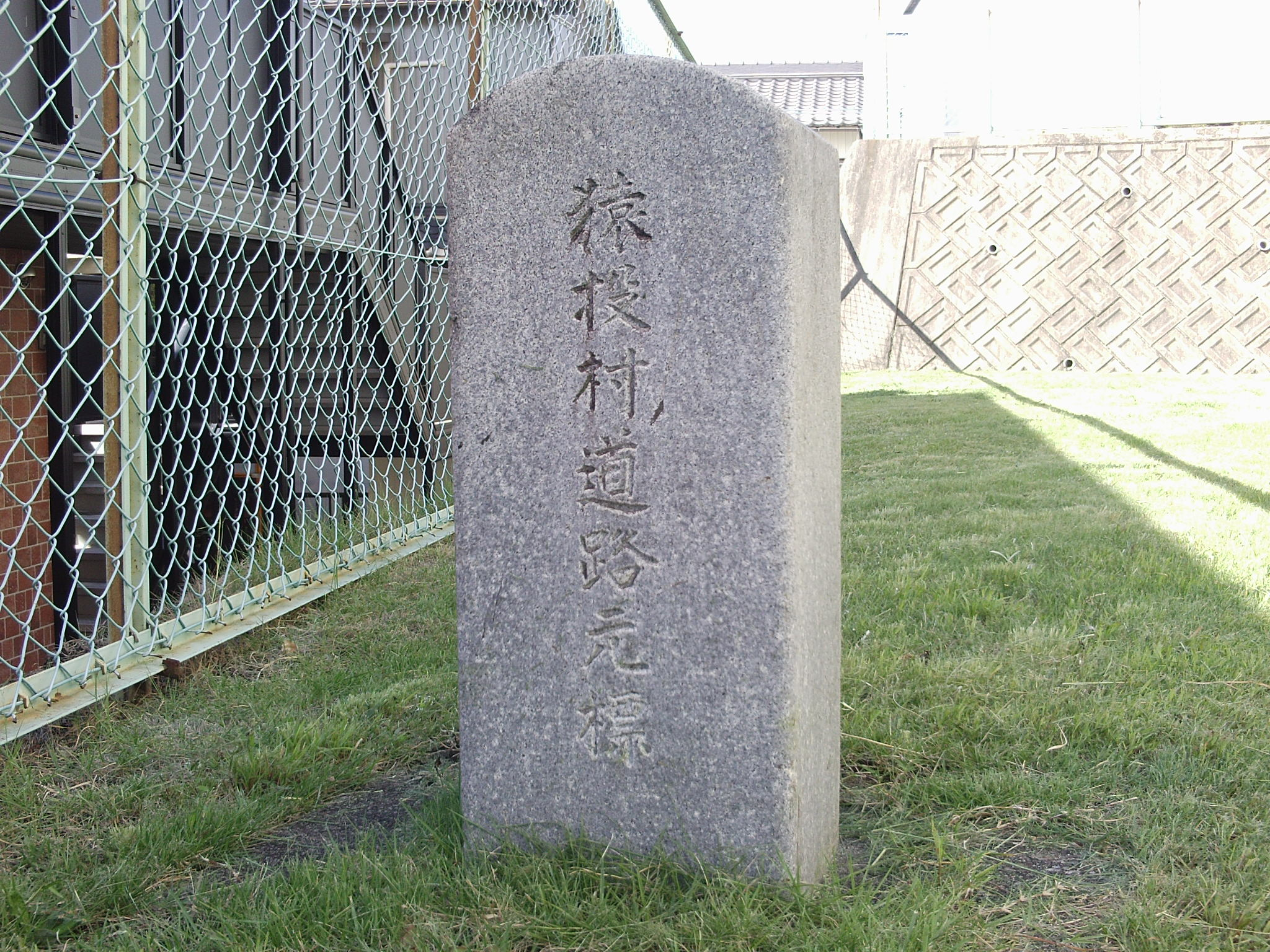 Kilometre zero of Sanage village. (Sanage village, Nishikamo-gun, Aichi.)